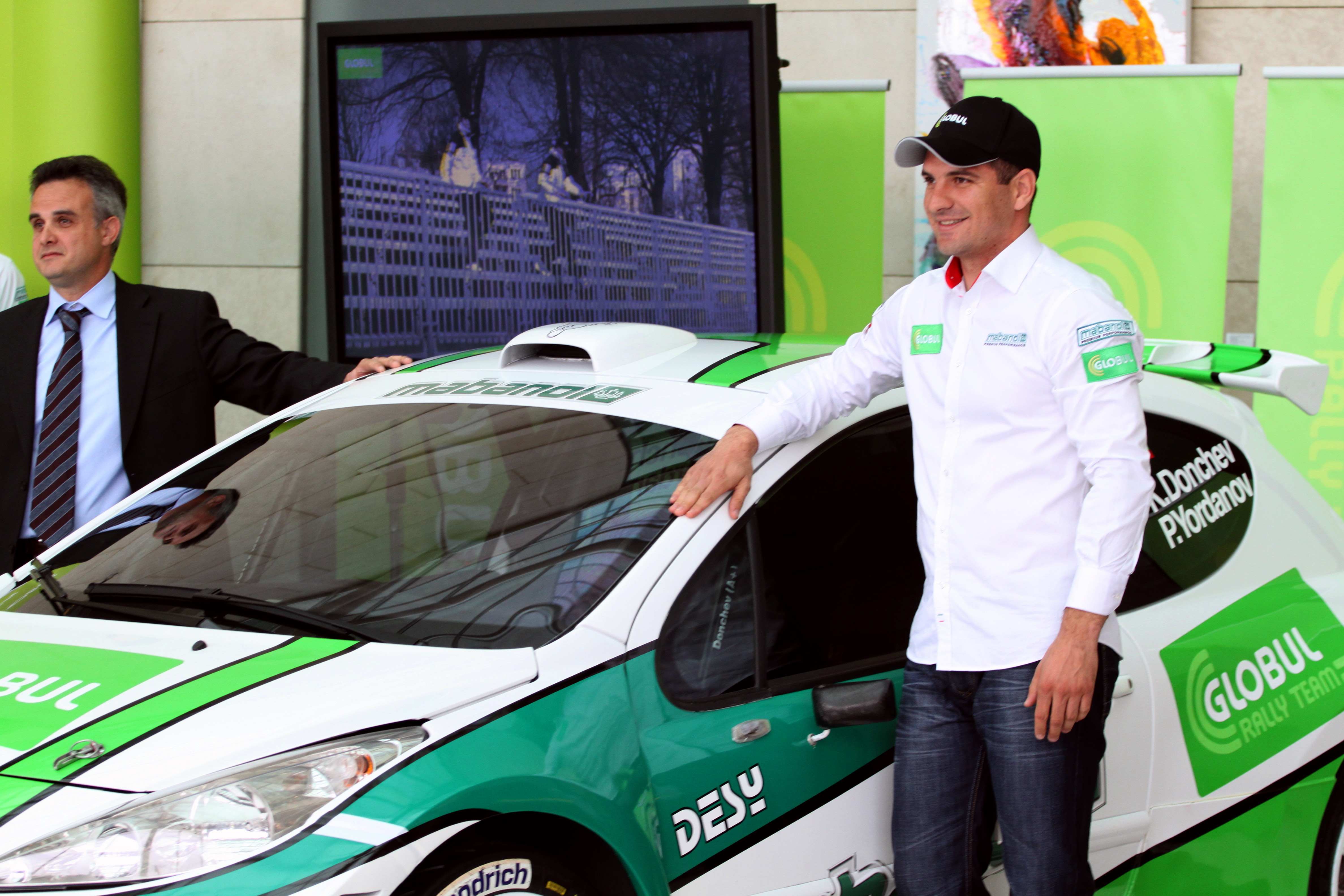 Bulgarian rally champion Krum Donchev presents new GLOBUL RALLY TEAM car for 2011 rally championship